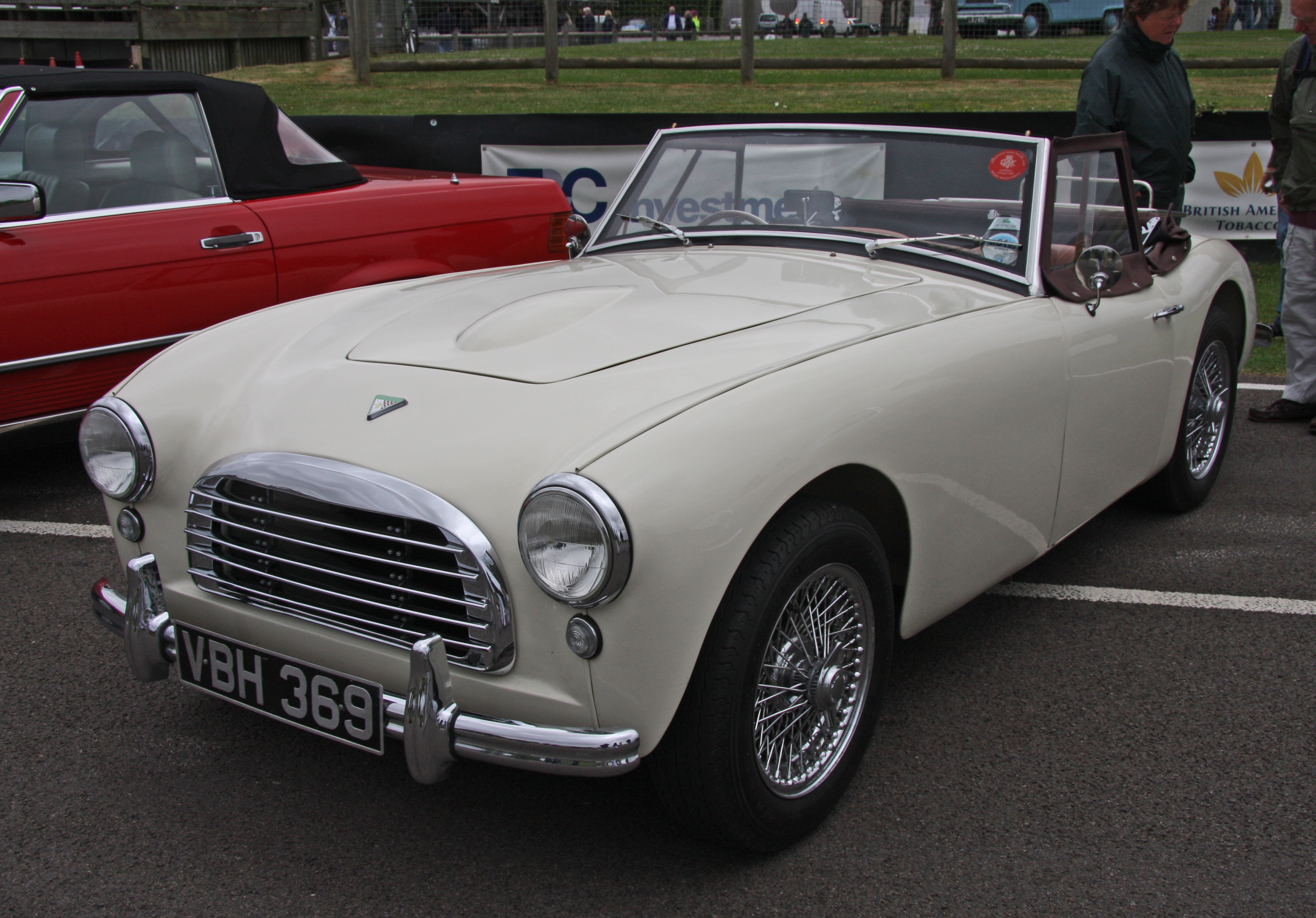 Swallow Doretti